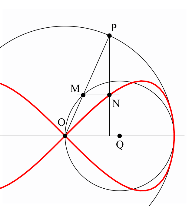 geometric construction of lemniscata